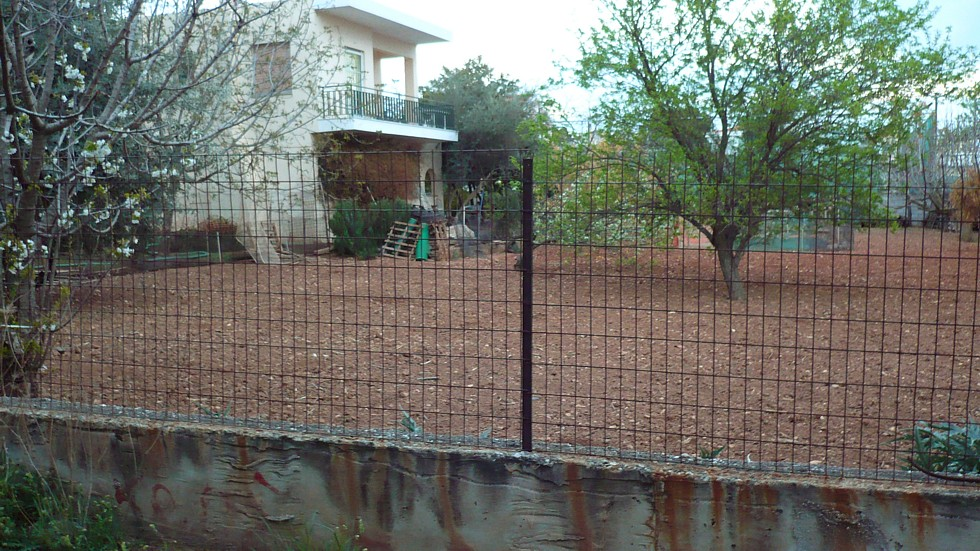 The picture depicts a field at Vrilissia, Attica, Greece